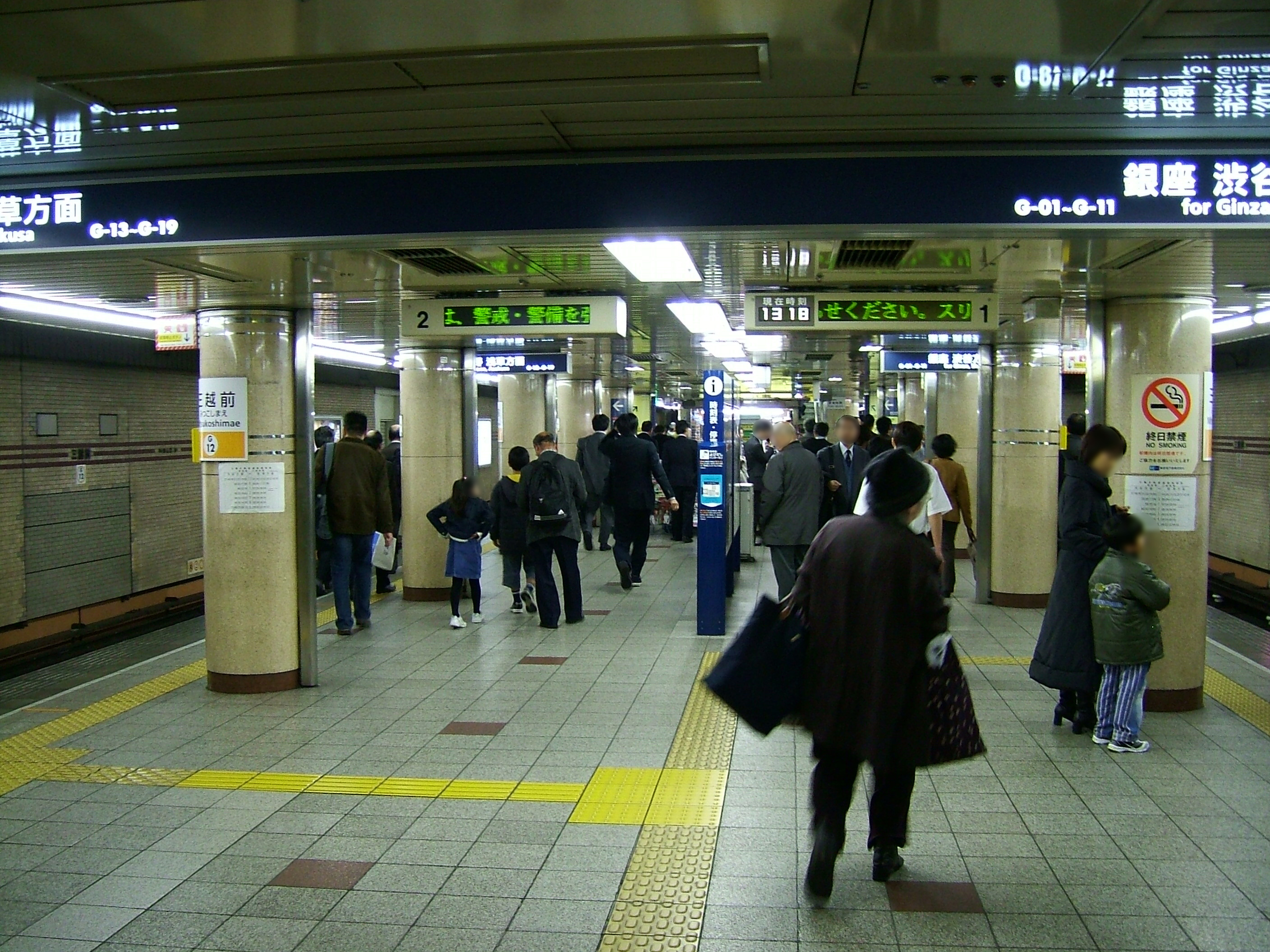 Mitsukoshimae Station platform (Tokyo Metro Ginza Line)